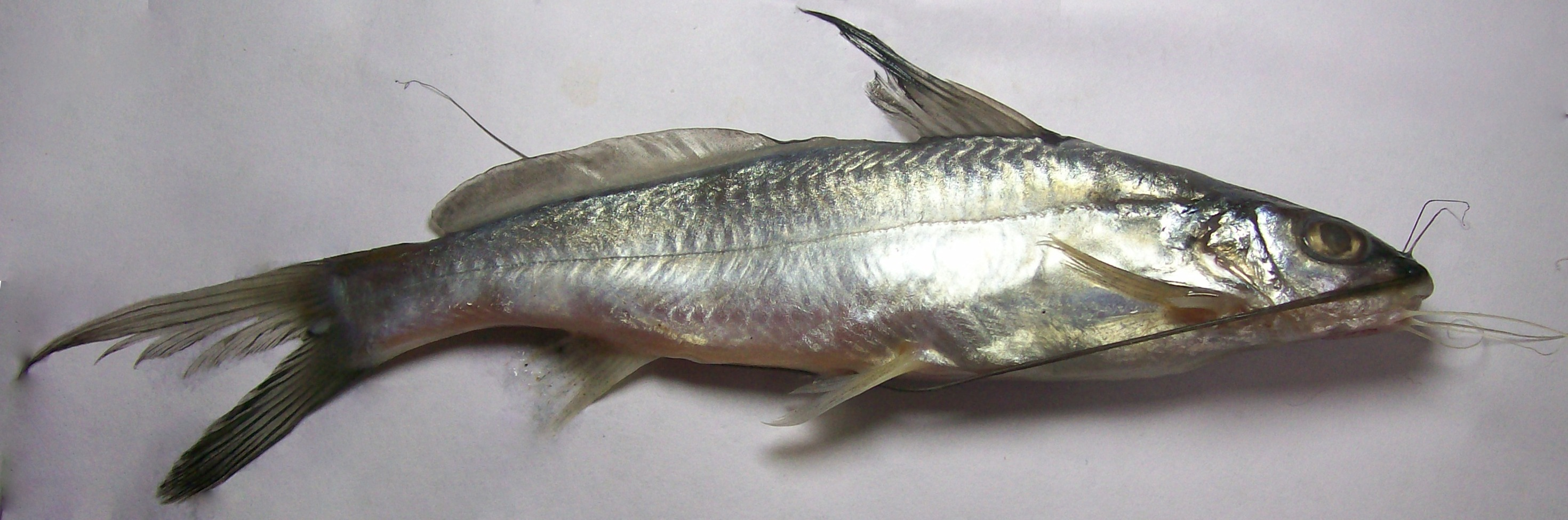 catfish approx 10 cm long. serrated dorsal and pectoral spines. 7 dorsal rays (8 total); 10 anal rays; approximately 10 pectoral rays. 4 pairs of barbels (2 chin+ 1 maxillary + 1 nasal) . Maxillary barbels reach caudal fin. Fish probably mystus seengtee going by Chakrabarty, P.; H. H. Ng (2005). "The identity of catfishes identified as Mystus cavasius (Hamilton, 1822) (Teleostei: Bagridae), with a description of a new species from Myanmar". Zootaxa 1093: 1–24. ISSN 1175-5326.)